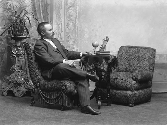 Photograph of the Finnish photographer Viktor Barsokevitsch (1863–1933).